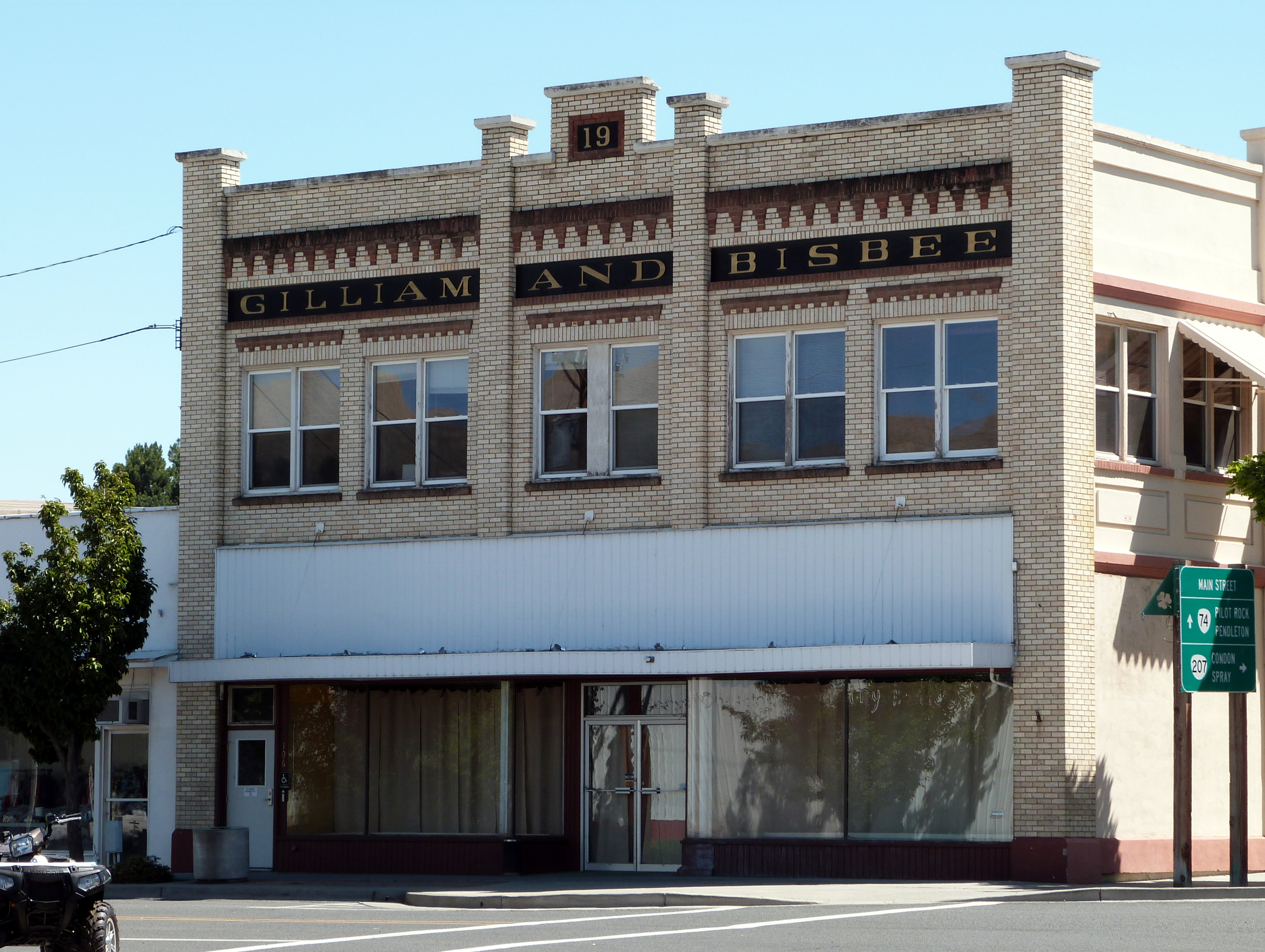 The historic Gilliam and Bisbee Building (built 1919), located at the intersection of Main and May streets in Heppner, Oregon, United States, is listed on the US National Register of Historic Places.